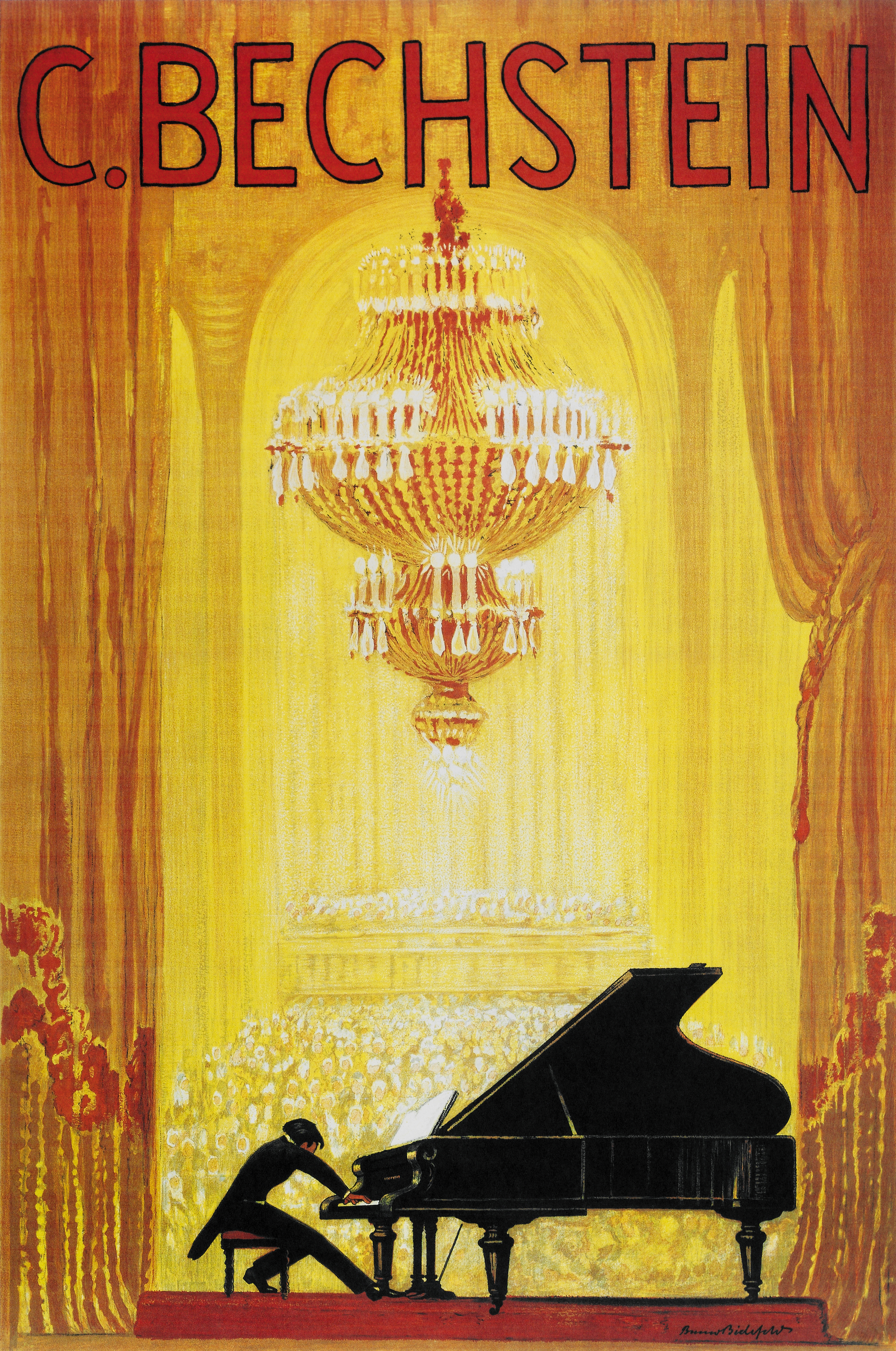 Advertisement Poster for the German Piano Manufacturer C. Bechstein published around 1920.